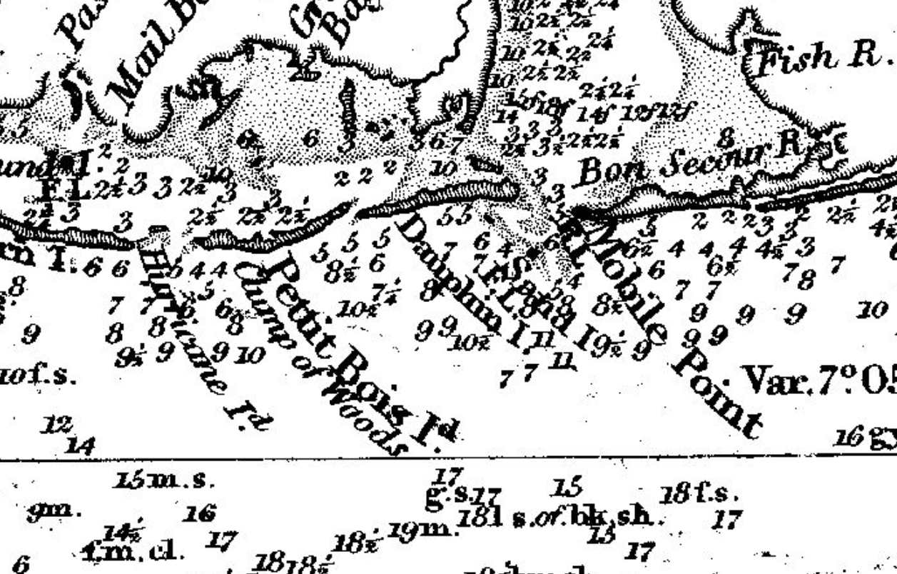 Taken from website and are free from copyrights